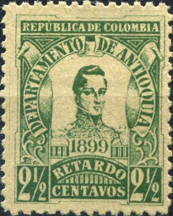 COLOMBIA - ANTIOQUIA - 1899 - too late fee